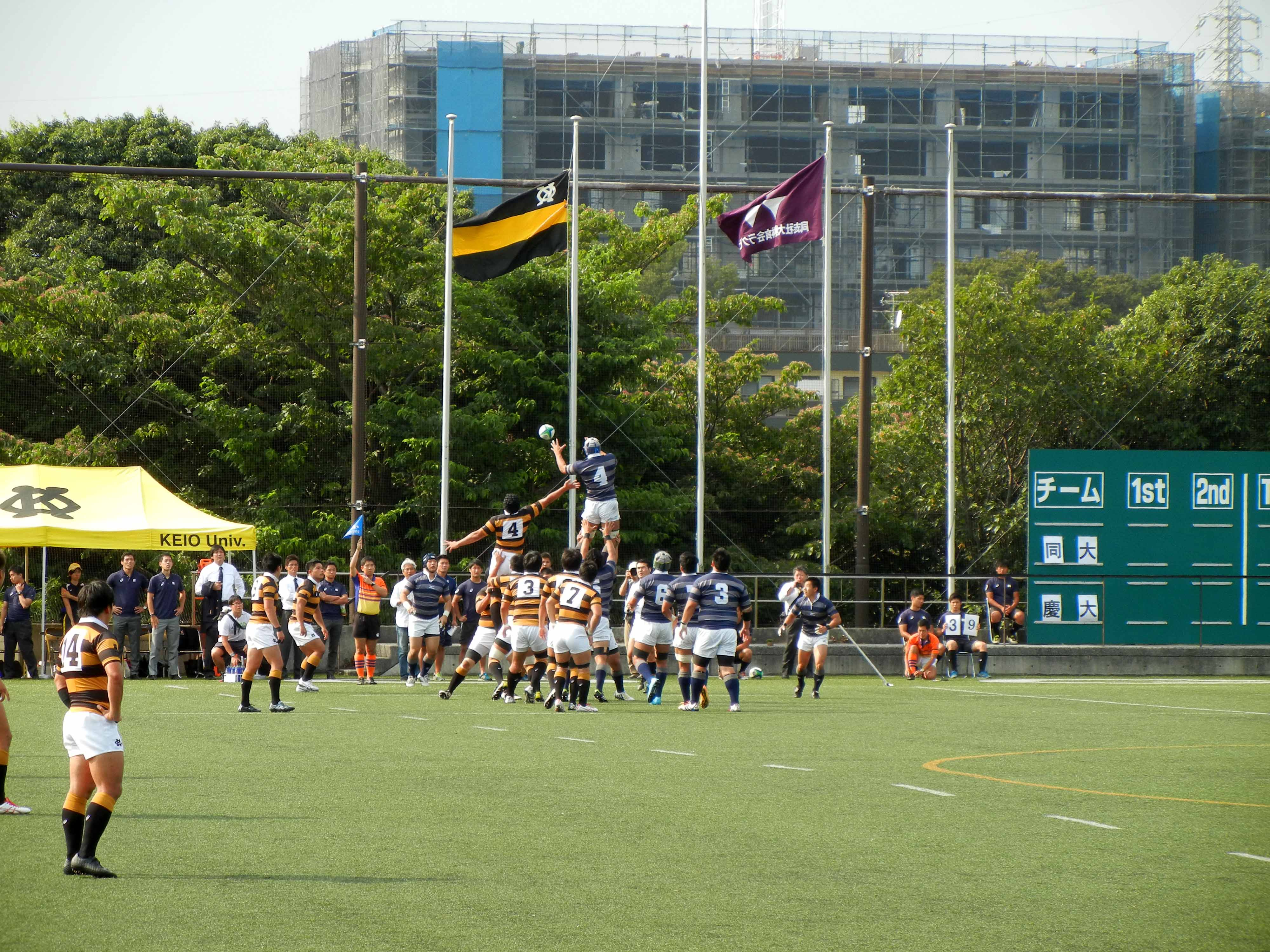 Rugby Keio University vs Doshisha University